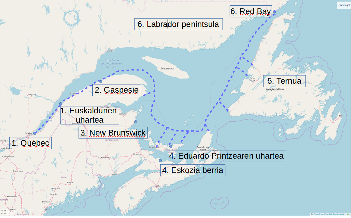 Itinerary followed by the Apaizac Obeto expedition in 2006